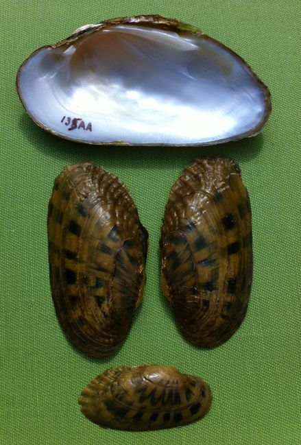 The fluted kidneyshell has been eliminated from more than 50% of the total number of streams from which it was historically known. It is only found only in portions of the Cumberland and Tennessee River systems of Alabama, Kentucky, Mississippi, Tennessee, and Virginia. The U.S. Fish and Wildlife Service is listing the fluted kidneyshell as endangered under the Endangered Species Act of 1973. Photo: Jeff Powell, USFWS.